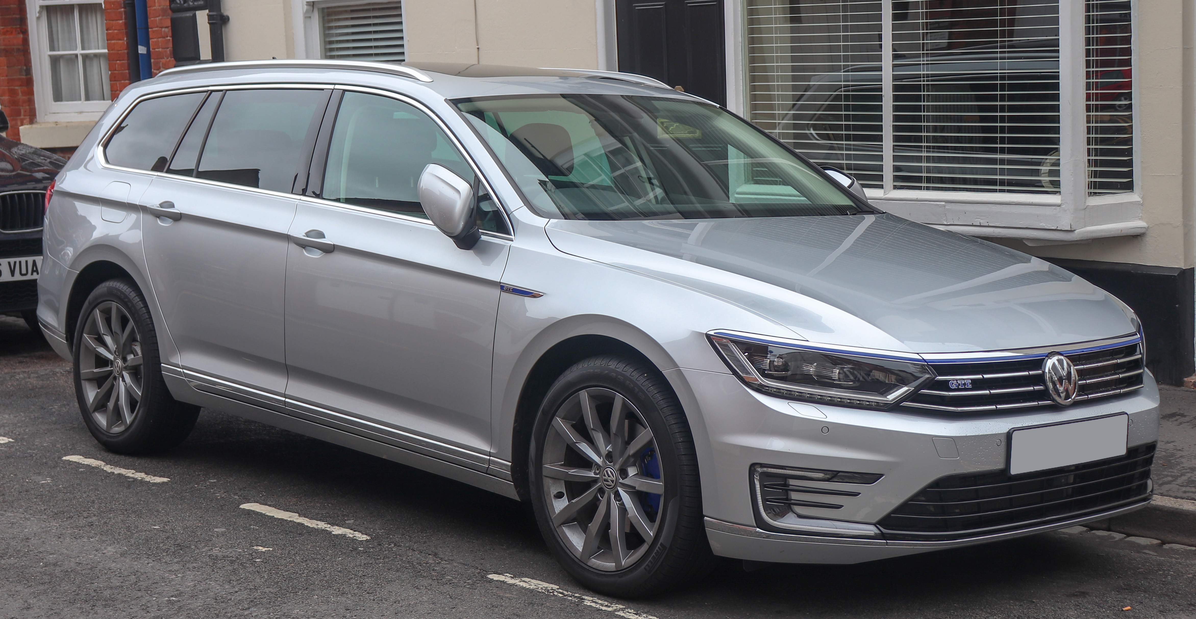 2018 Volkswagen Passat GTE Advance S-A 1.4 Front Taken in Warwick